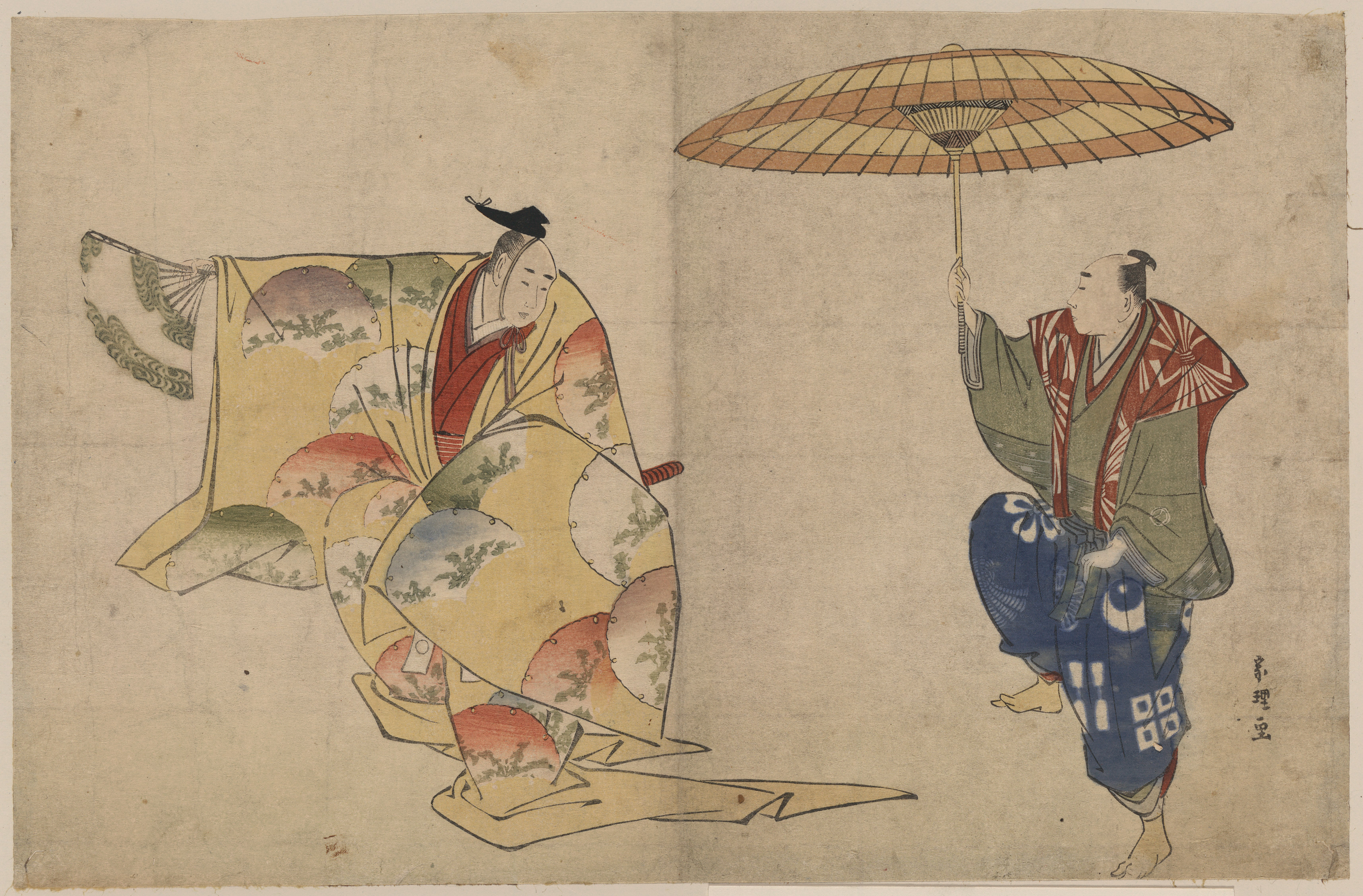 Title: Suehirogari Abstract/medium: 1 print : woodcut, color ; 20.7 x 31.9 cm.